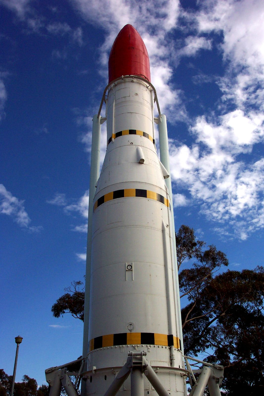 A Black Arrow launch vehicle in the rocket park at Woomera, similar to the one that launched the UK's first satellite in 1971.